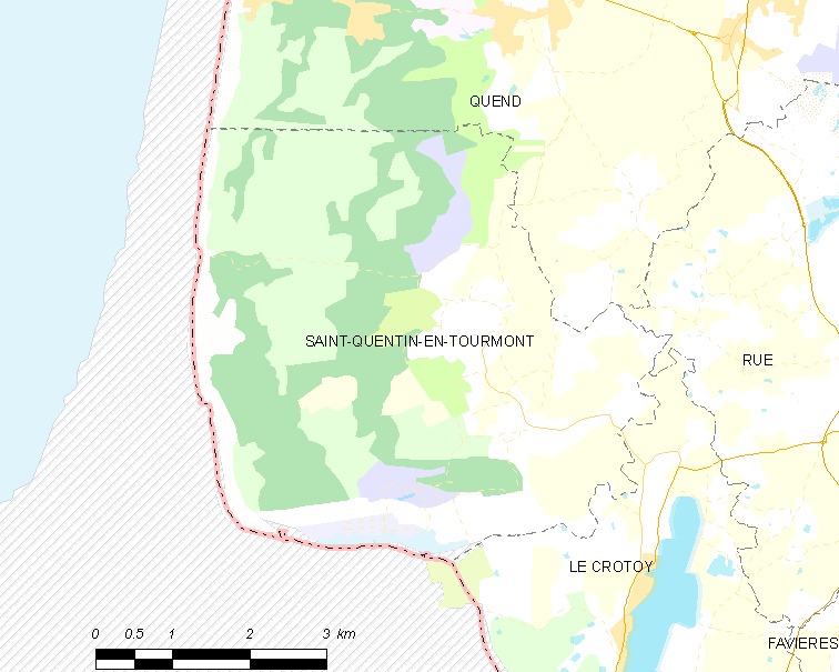 Map of French municipality Saint-Quentin-en-Tourmont